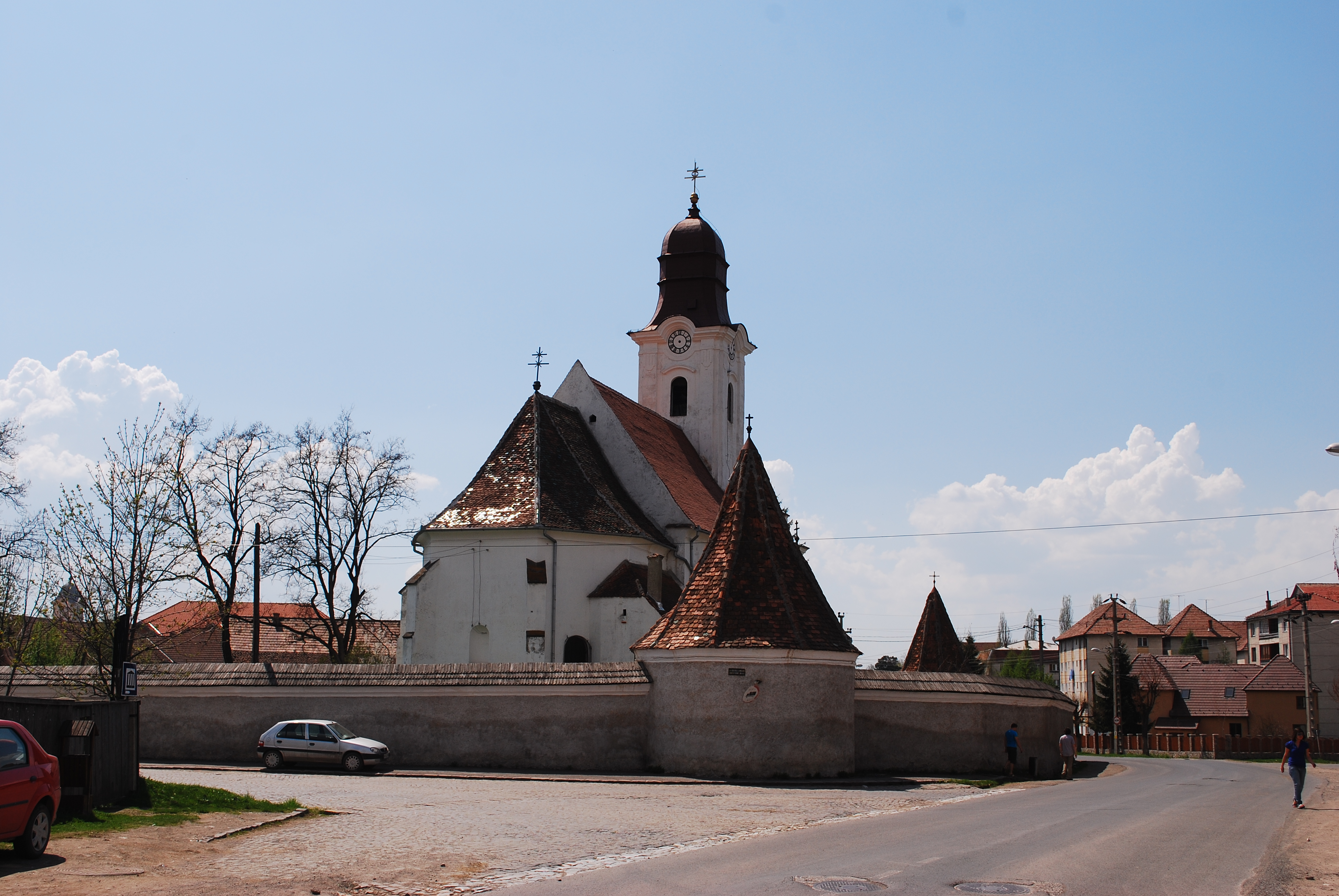 Armenian church in Gheorgheni, Harghita County, RomaniaRomână: Biserica armenească din Gheorgheni, județul Harghita, România